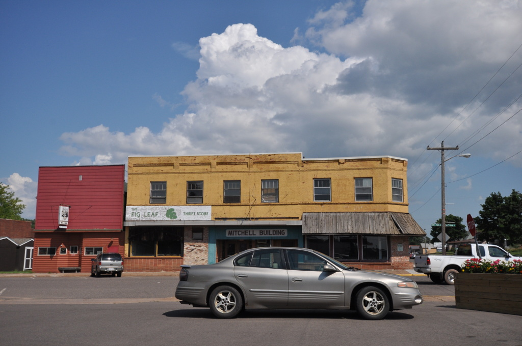 Downtiwn Iron River, Wisconsin.